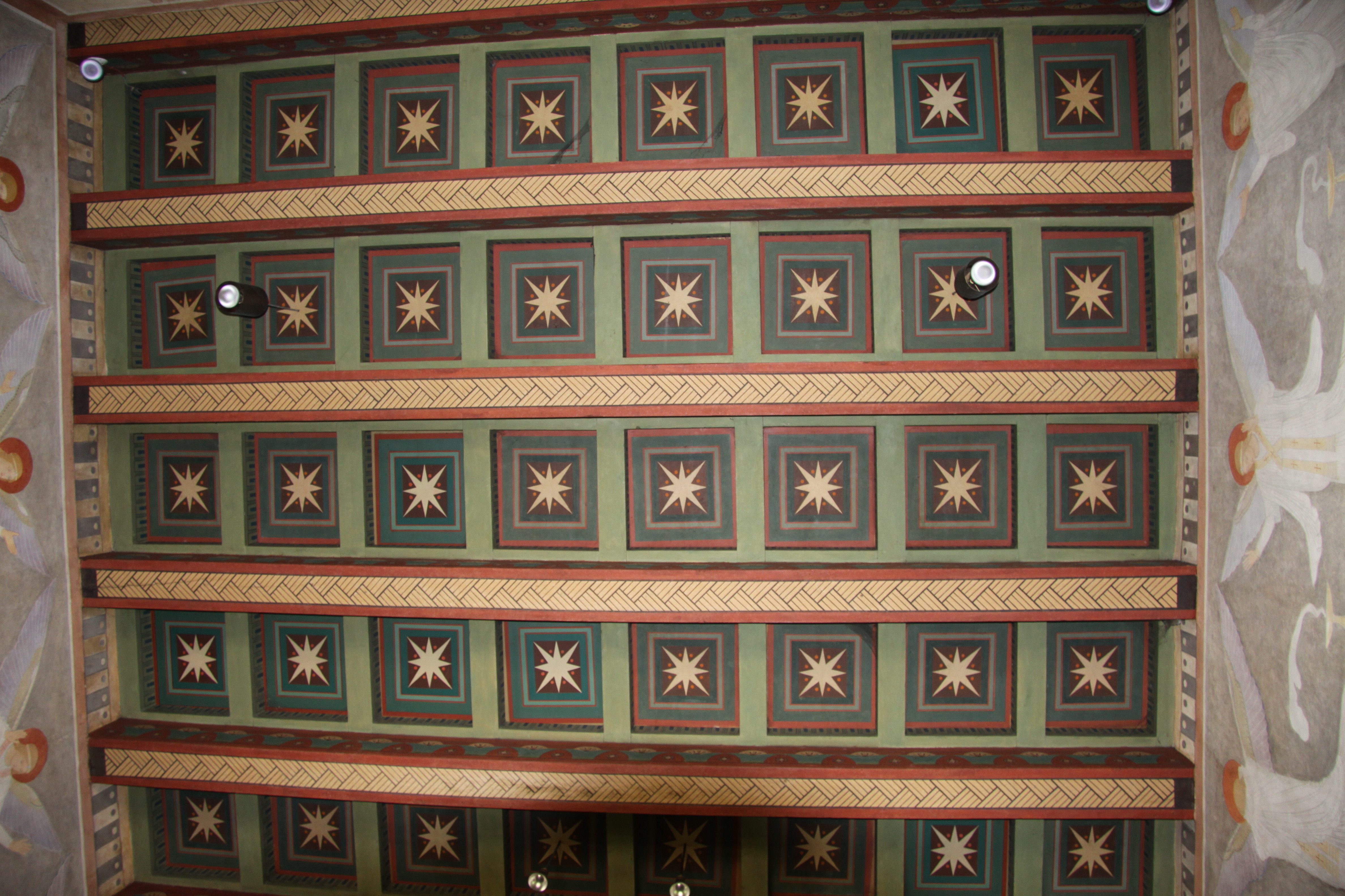 St.-Maurus-Kapelle, Beuron (Donautal), erbaut 1868–1870, Architekt: Desiderius Lenz. waffle-slab ceiling. Juli 2016